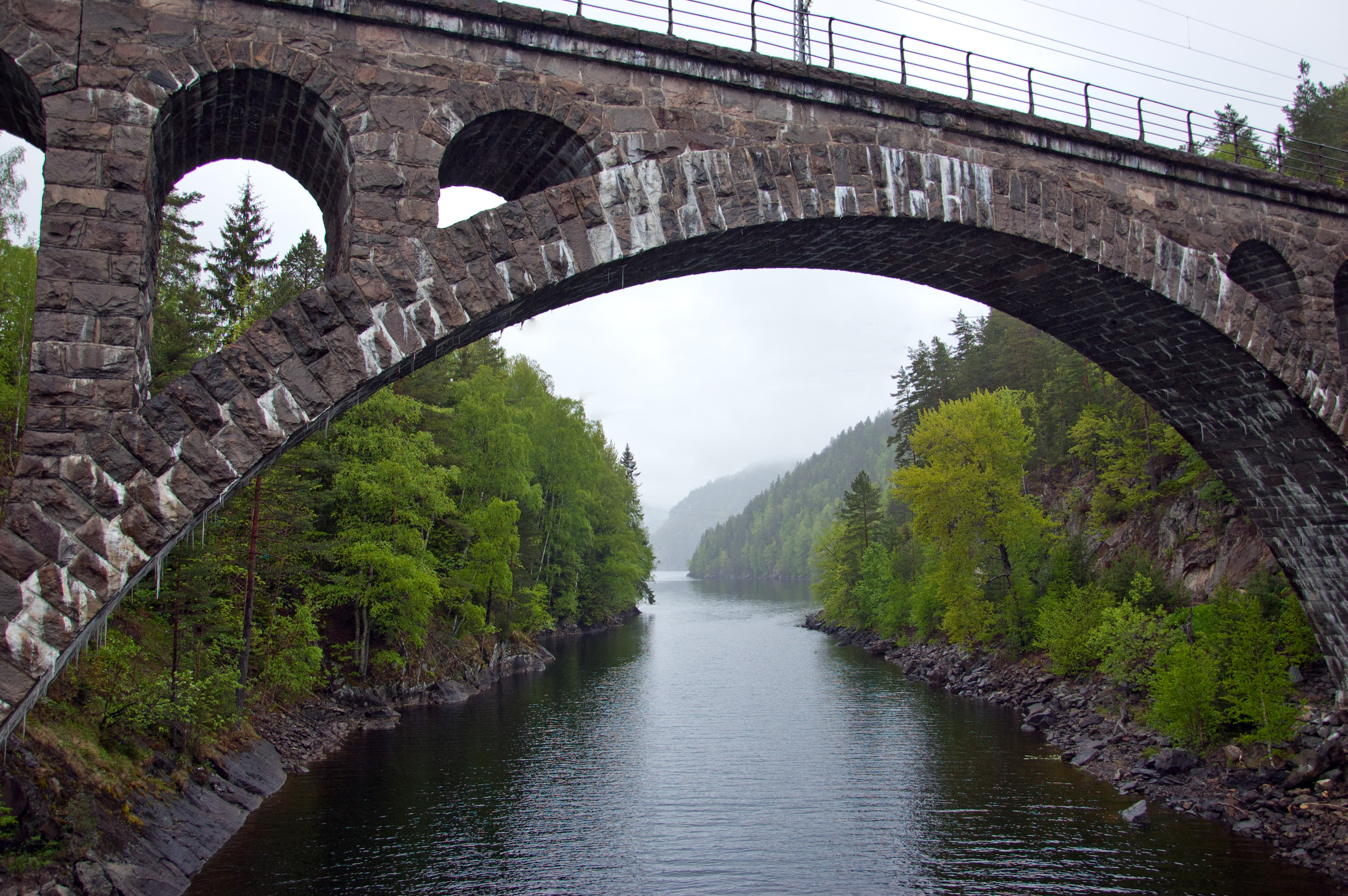 Kjeosen railway bridge on the Sørland Line in Drangedal, Telemark, Norway.